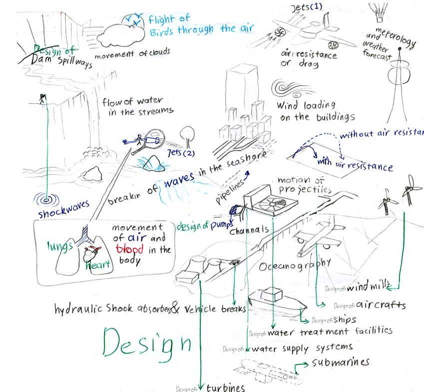 Sketch of a few applications of fluid mechanics.